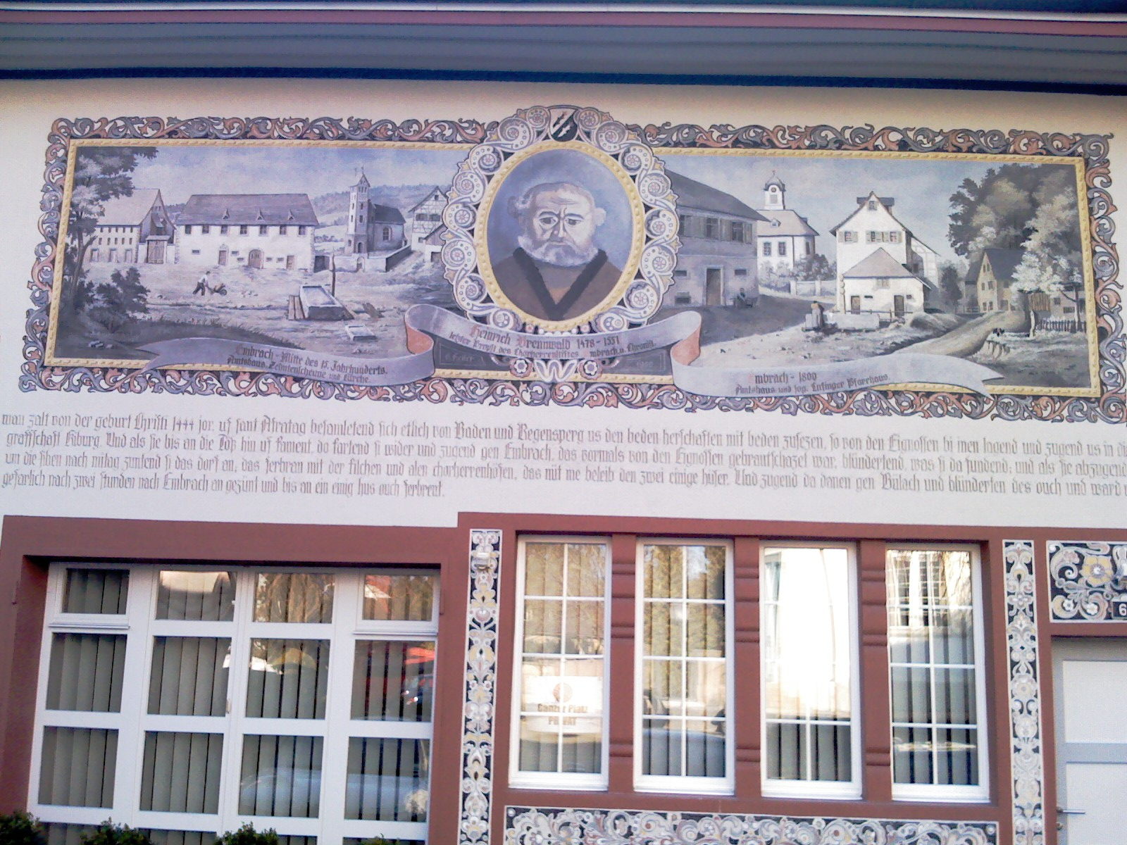 Painted house fassade in Embrach - Pentrita domfasado en Embrach